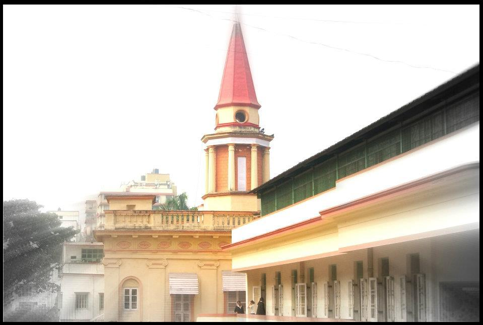 school